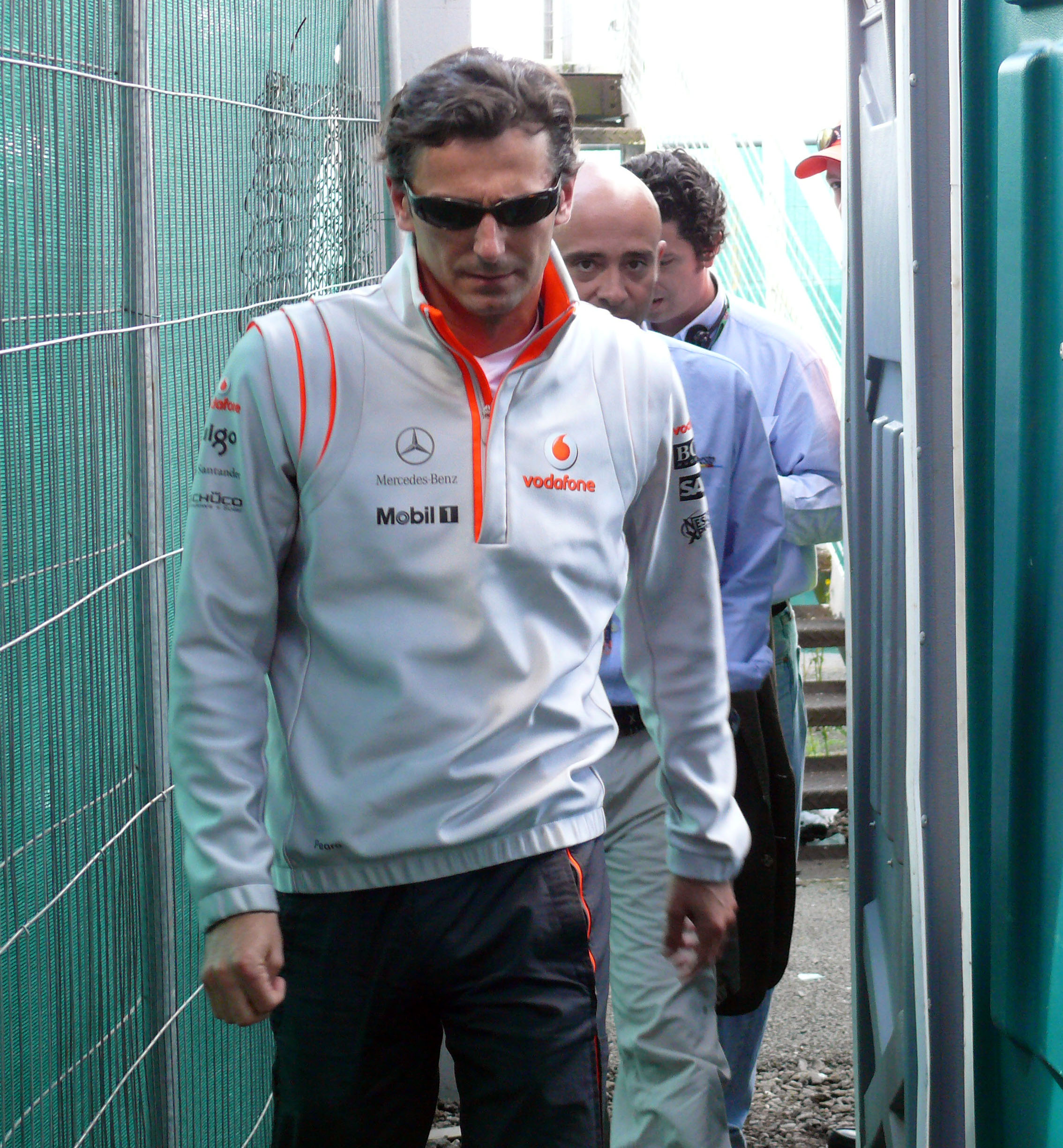 Pedro de la Rosa, Mclaren Mercedes test pilot.